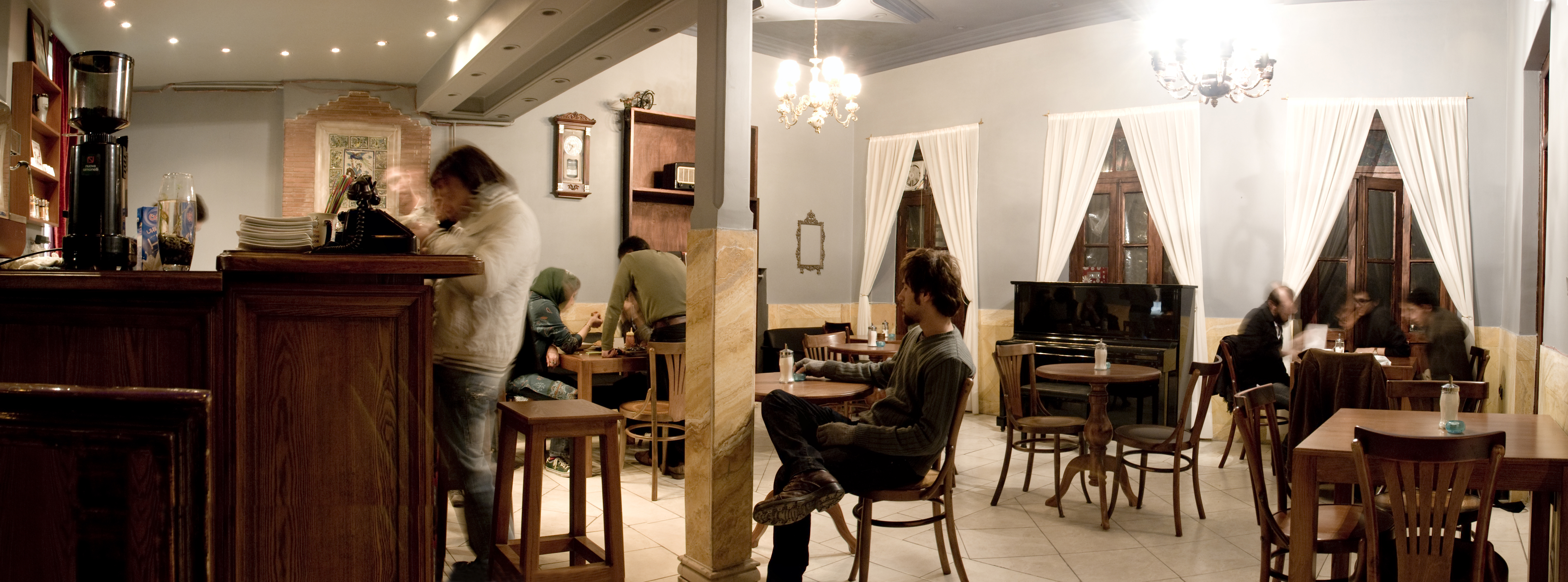 coffe romance tehran